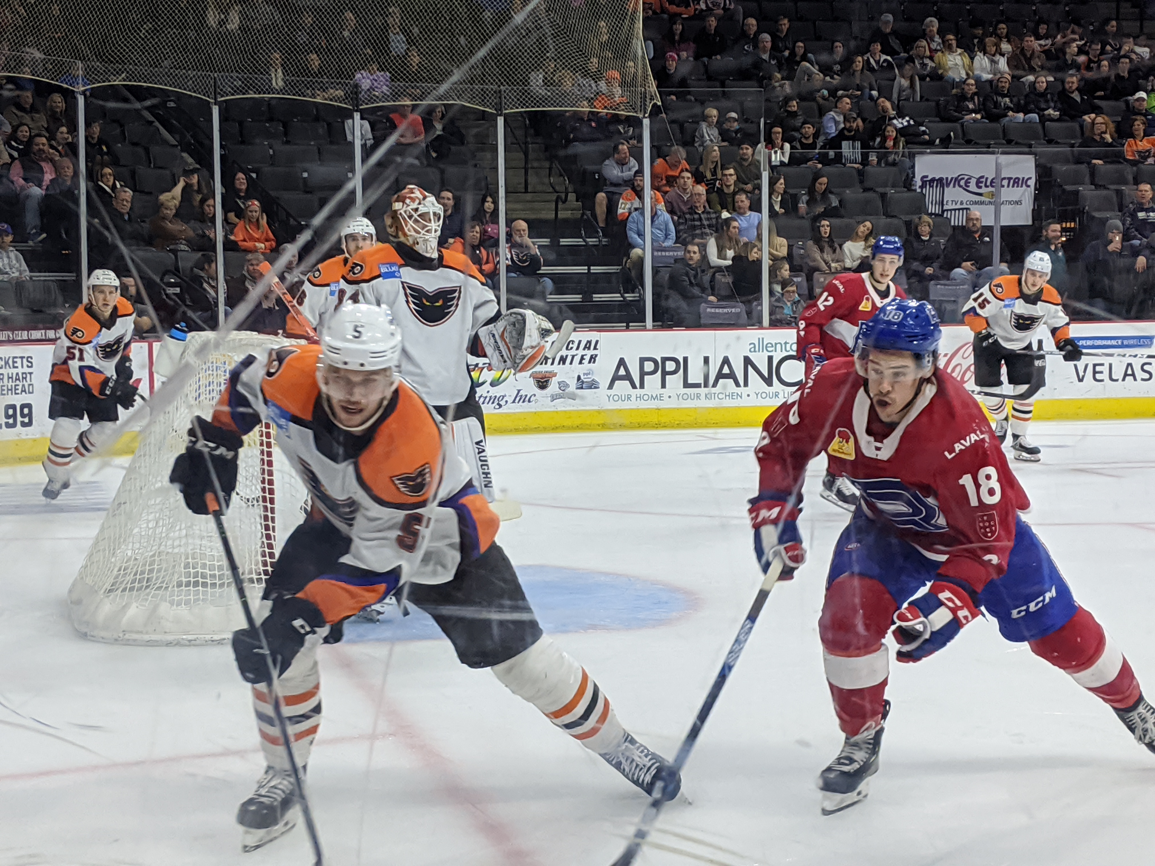 The Lehigh Valley Phantoms and Laval Rocket at the PPL Center in Allentown, Pennsylvania, on January 11, 2020. The Phantoms' Tyler Wotherspoon (left) and the Rocket's Charles Hudon (right) face off against each other, while goaltender Alex Lyon is in net for Lehigh Valley.